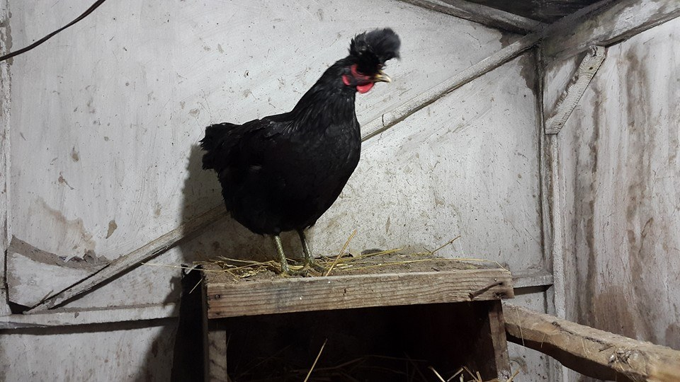 Kosovo Crower hen.